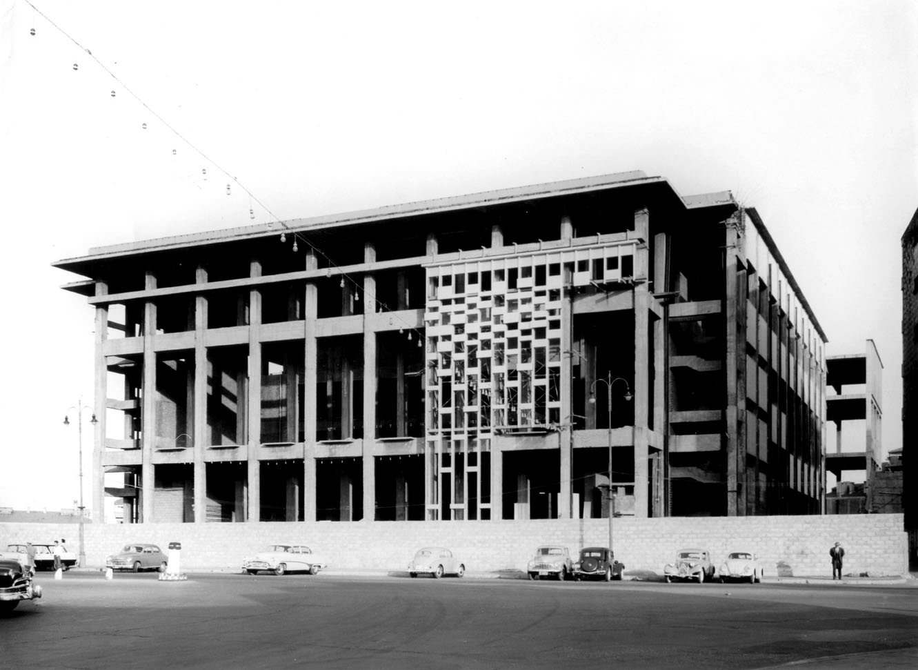 AKM construction site photos, 1957-1963 SALT Research, Hayati Tabanlıoğlu Archive AKM şantiye fotoğrafları, 1957-1963 SALT Araştırma, Hayati Tabanlıoğlu Arşivi